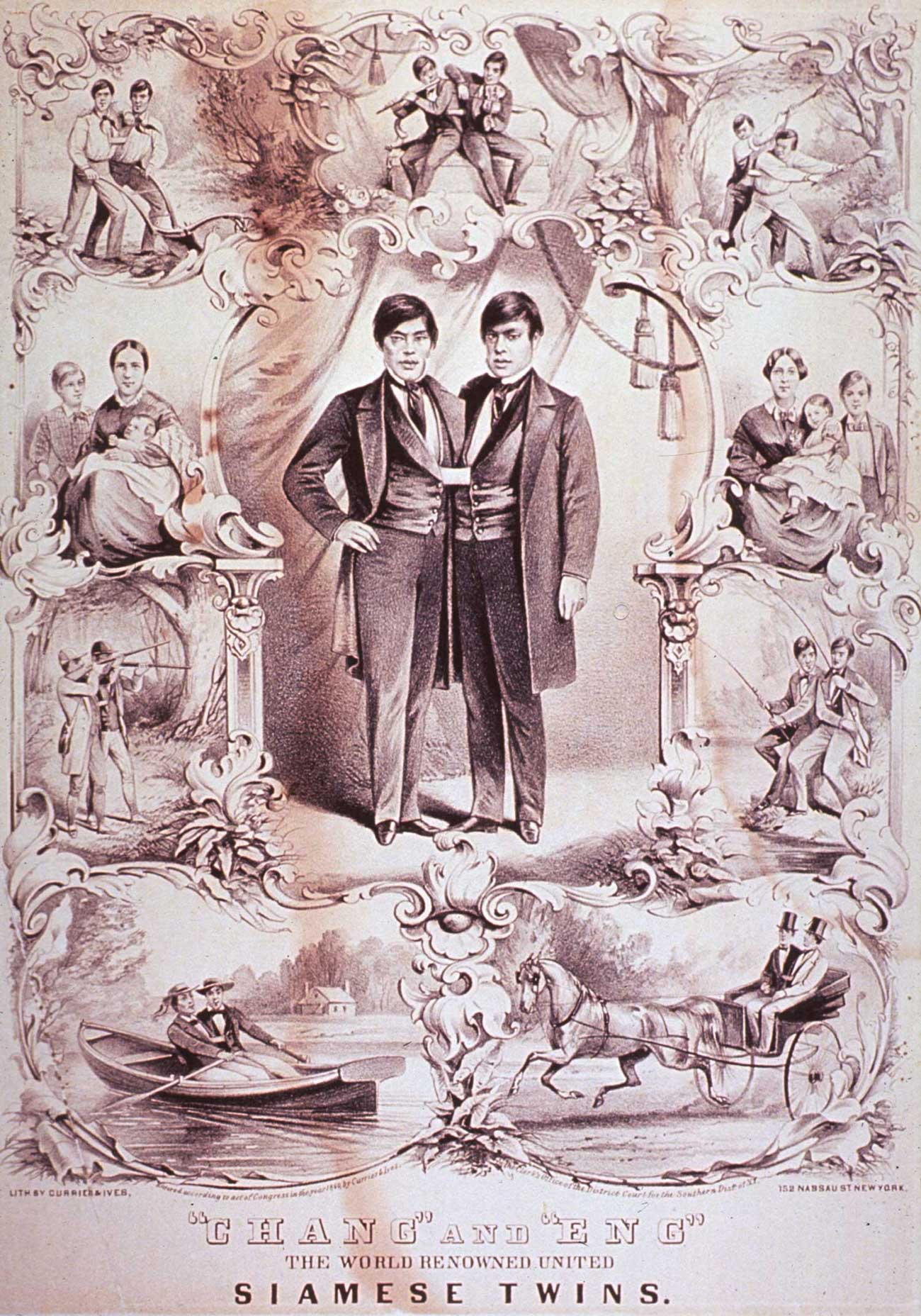 Currier and Ives lithograph dated 1860 which depicts "The World Renowned United Siamese Twins" Chang and Eng Bunker. The border shows Chang and Eng engaged in a variety of activities, such as hunting, fishing, and farming. Their wives and children are shown at each of their sides.